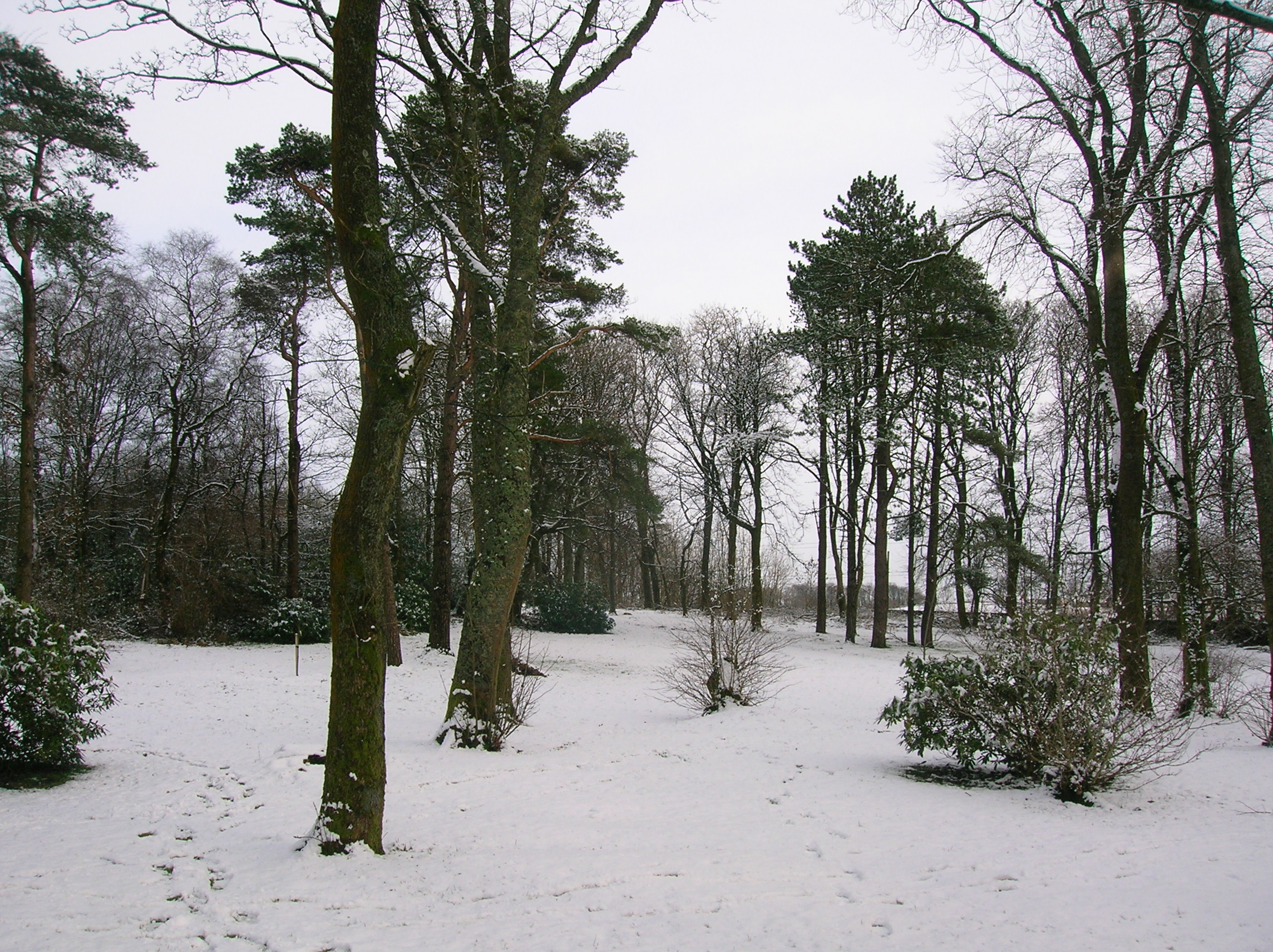 Spier's old school front lawns. Beith, North Ayrshire, Scotland